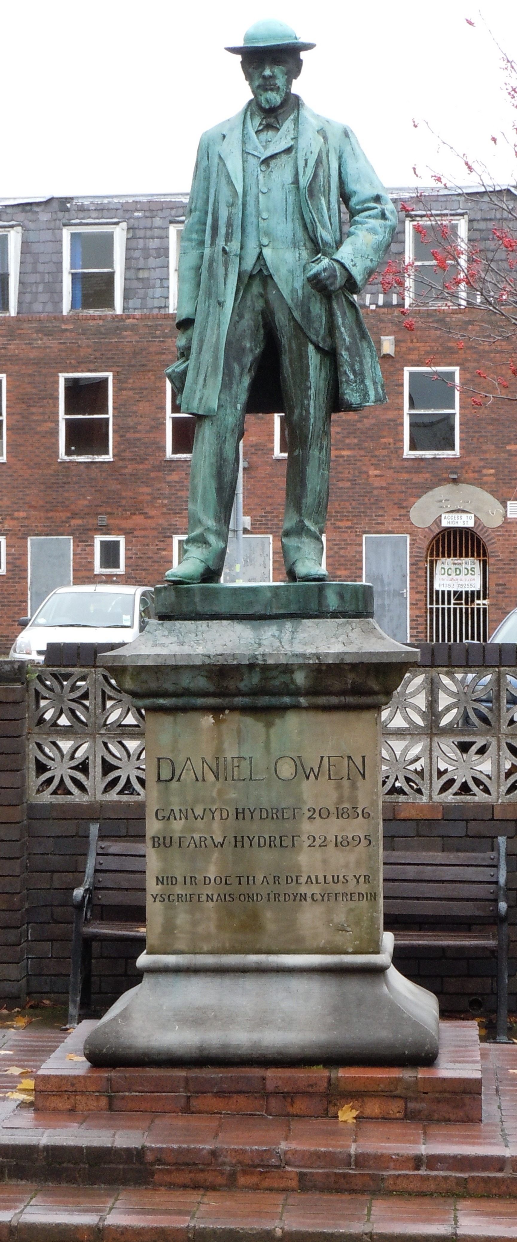 Statue of the Welsh Author, located outside the Library in Mold, Flintshire